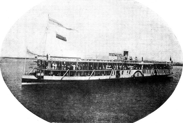 Steamship Velikaya knyazhna Olga Nikolayevna (later Volodarski)